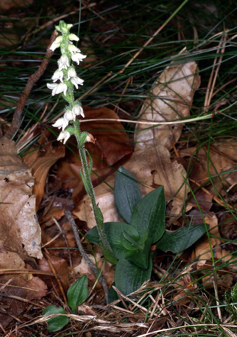 Goodyera repens